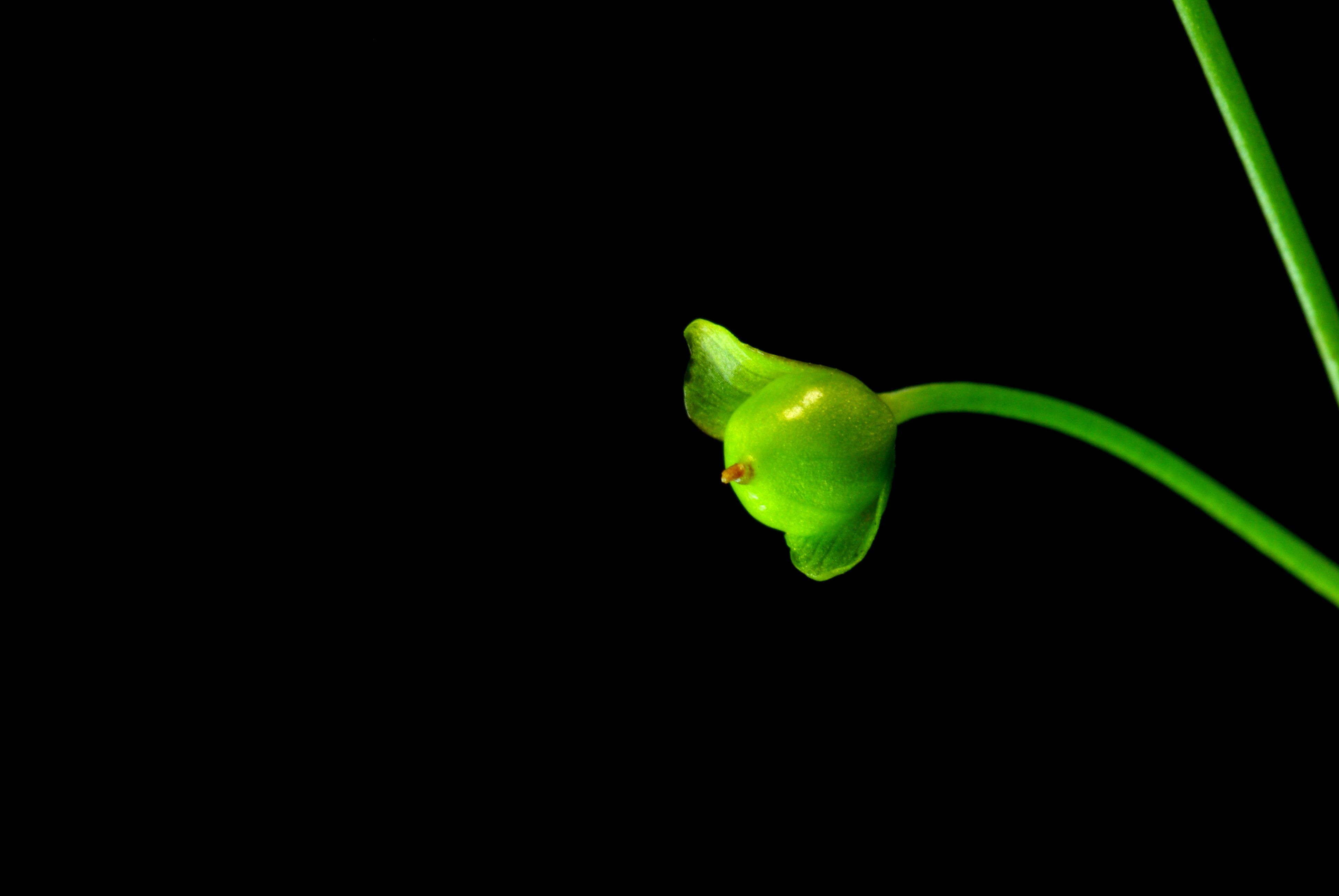 Utricularia gibba3